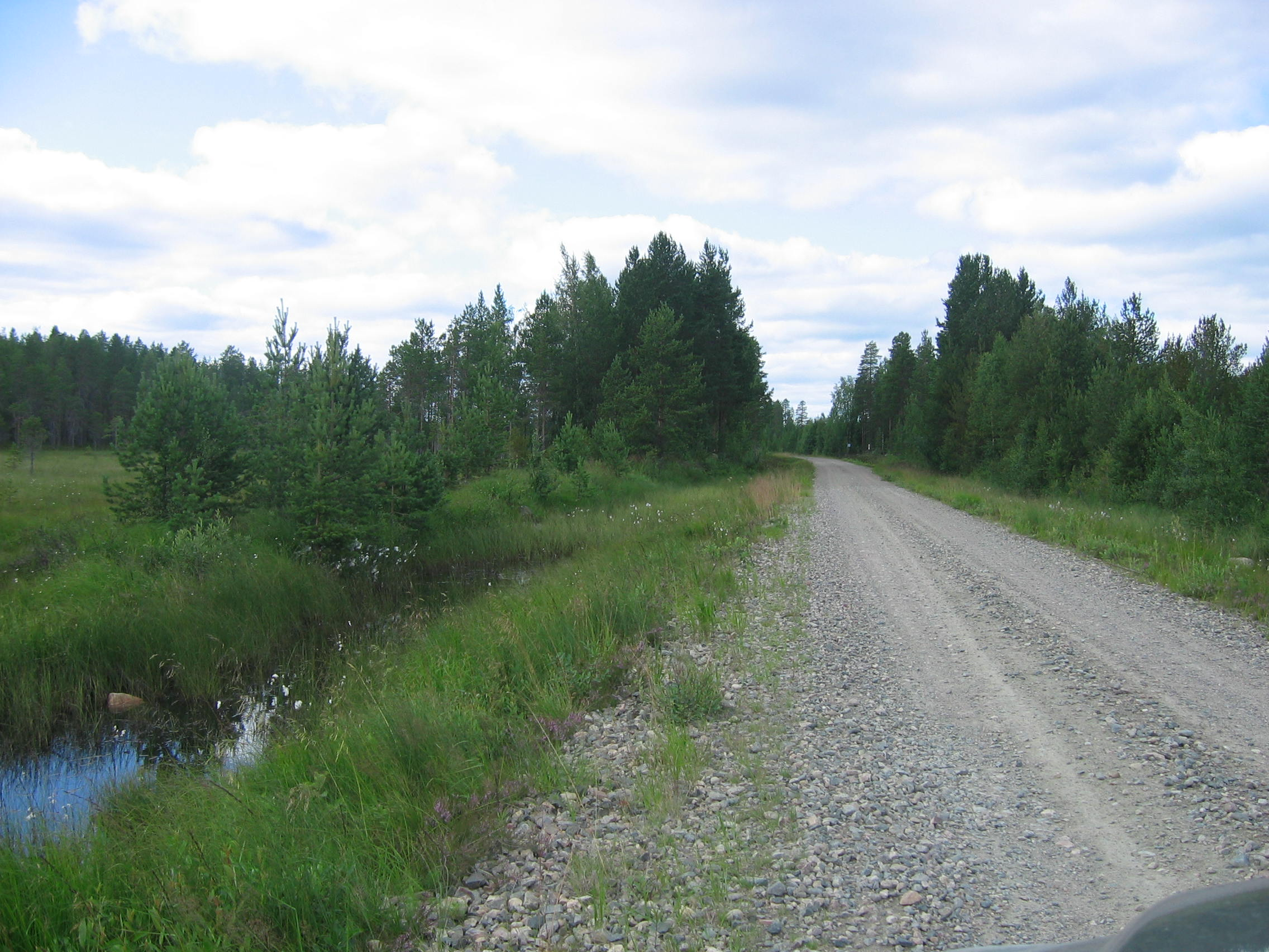 The Hillatie forest road in Juorkuna, Utajärvi, Finland.